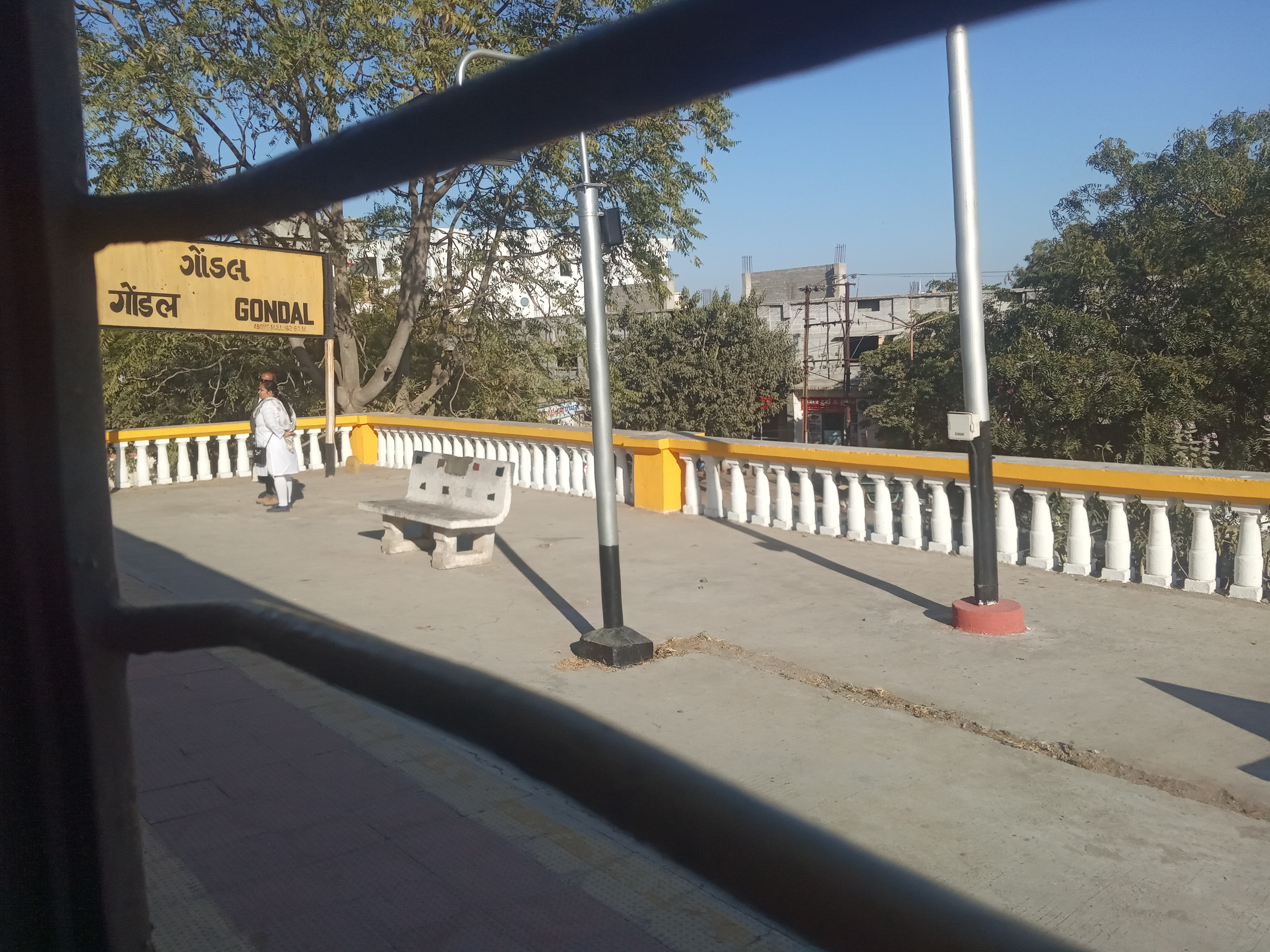 Gondal railway station